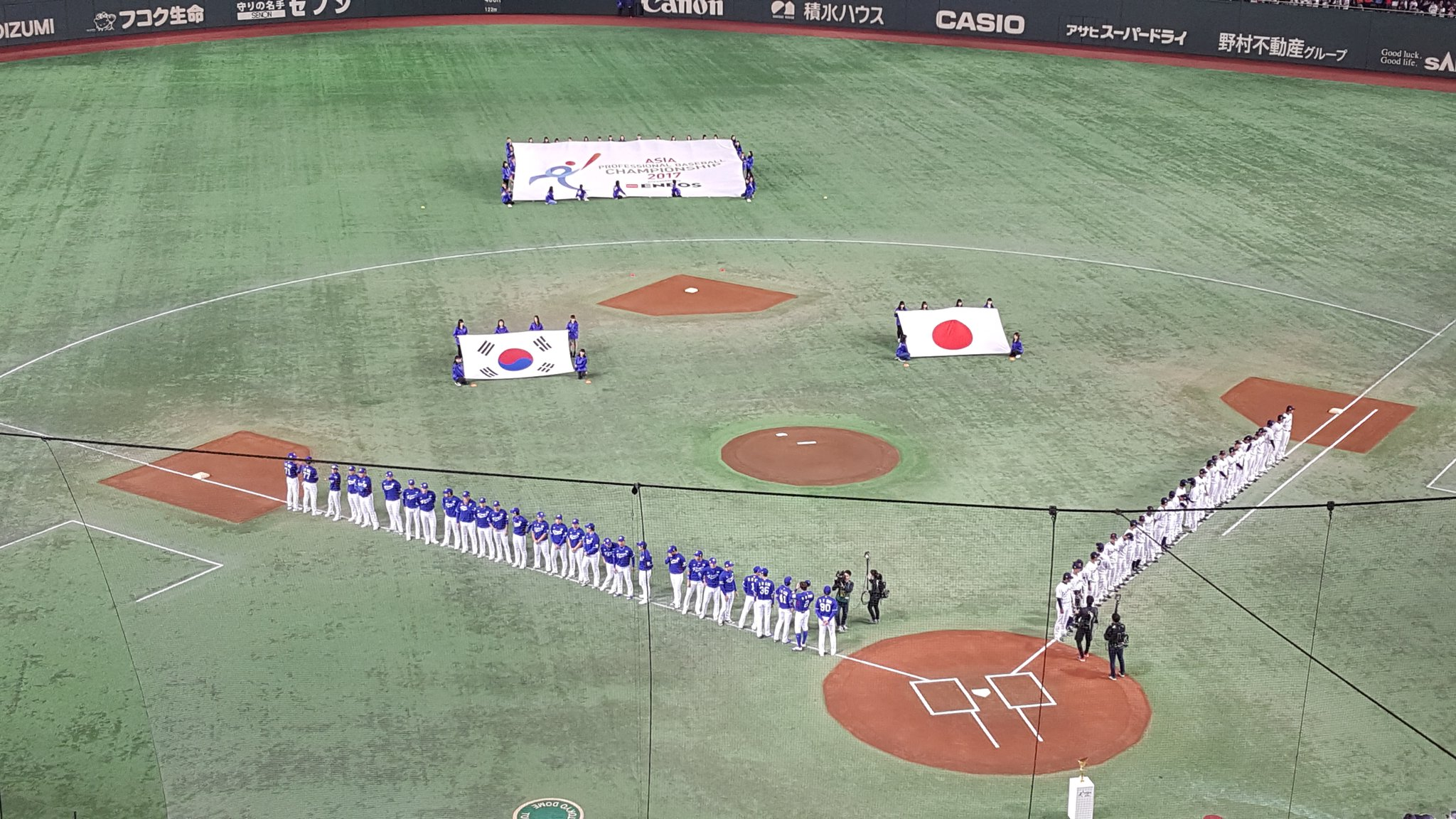 Asia Professional Baseball Championship 2017 between Japan and South Korea in Tokyo Dome on November 16, 2017.